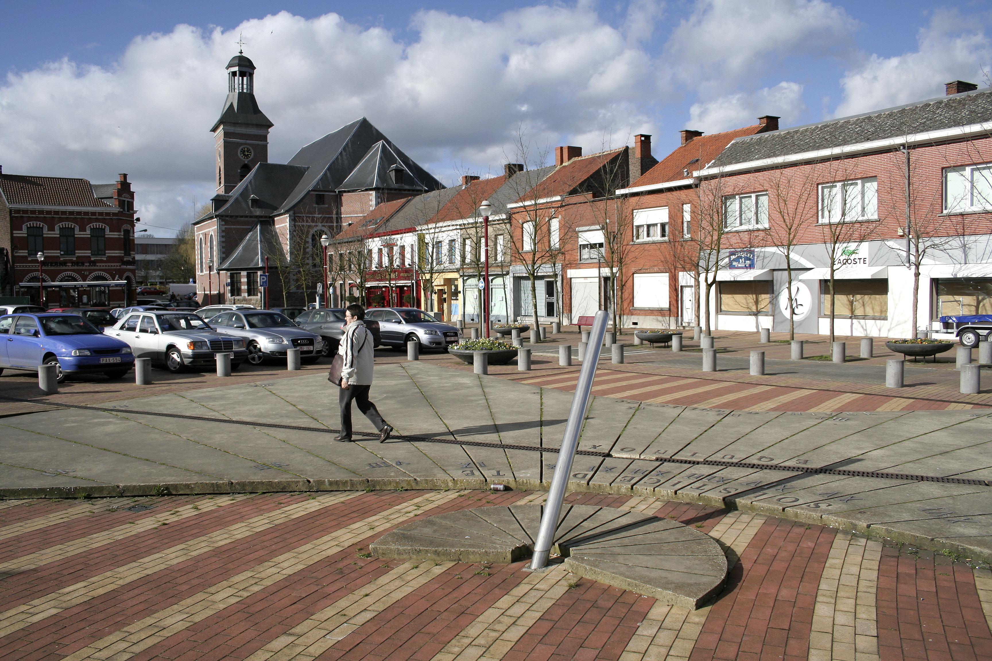 Frameries (Belgium), Grand-Place - The big sundial.